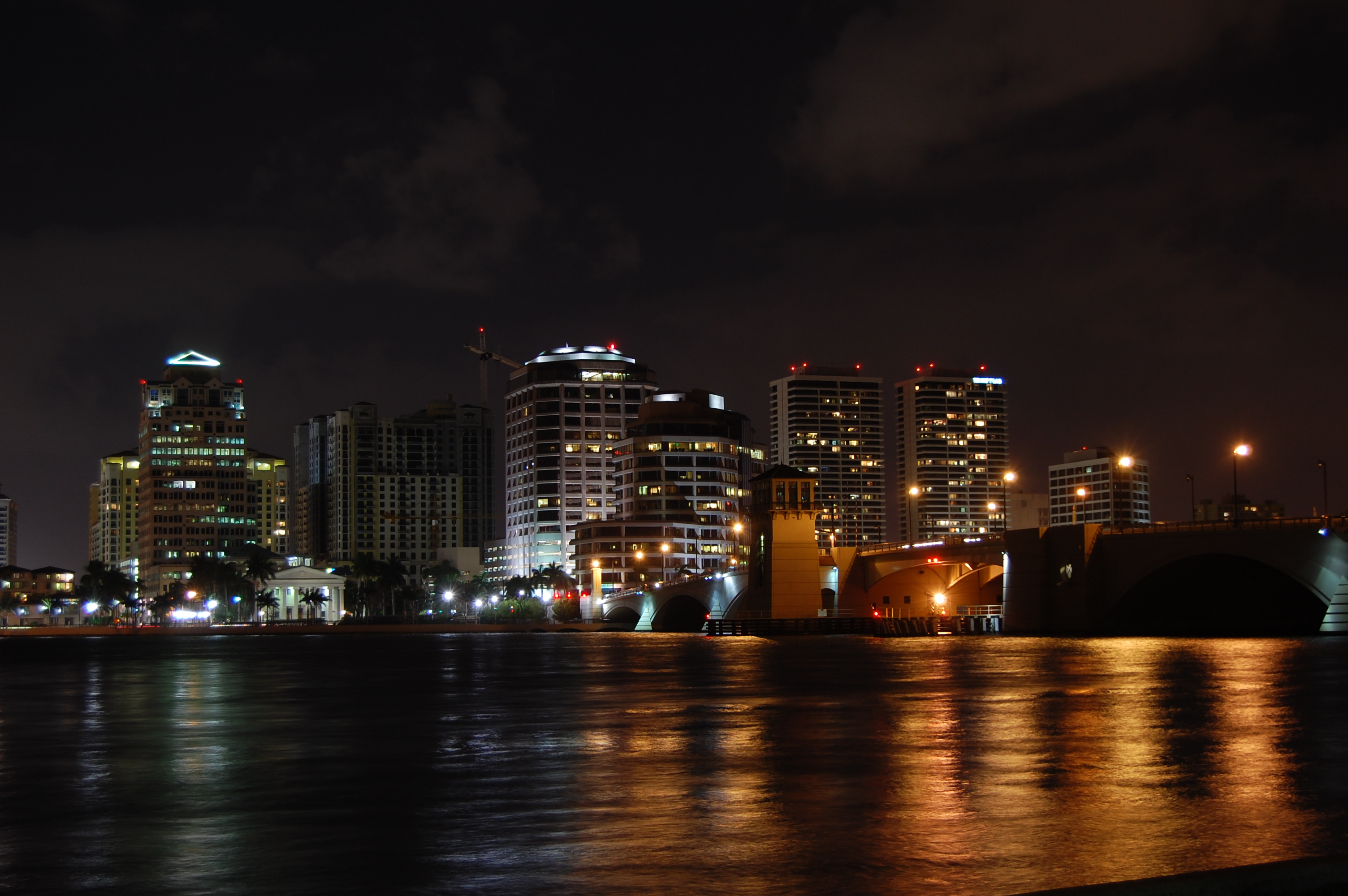 The skyline of West Palm Beach at night, taken from the island of Palm Beach.